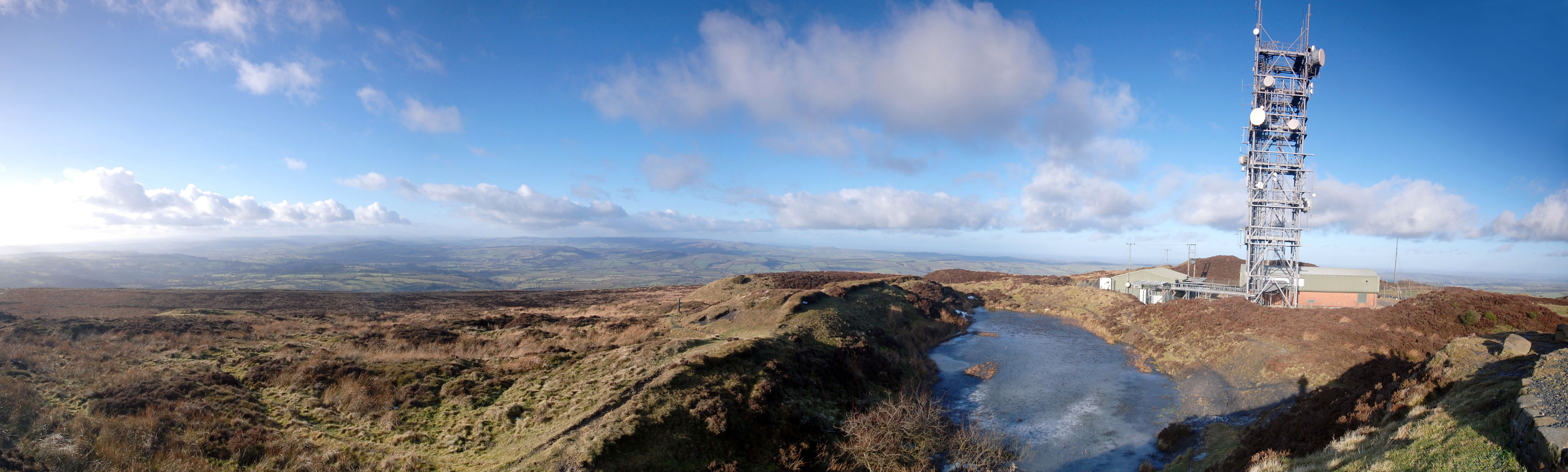 View West from top of Brown Clee Hill, Shropshire, England